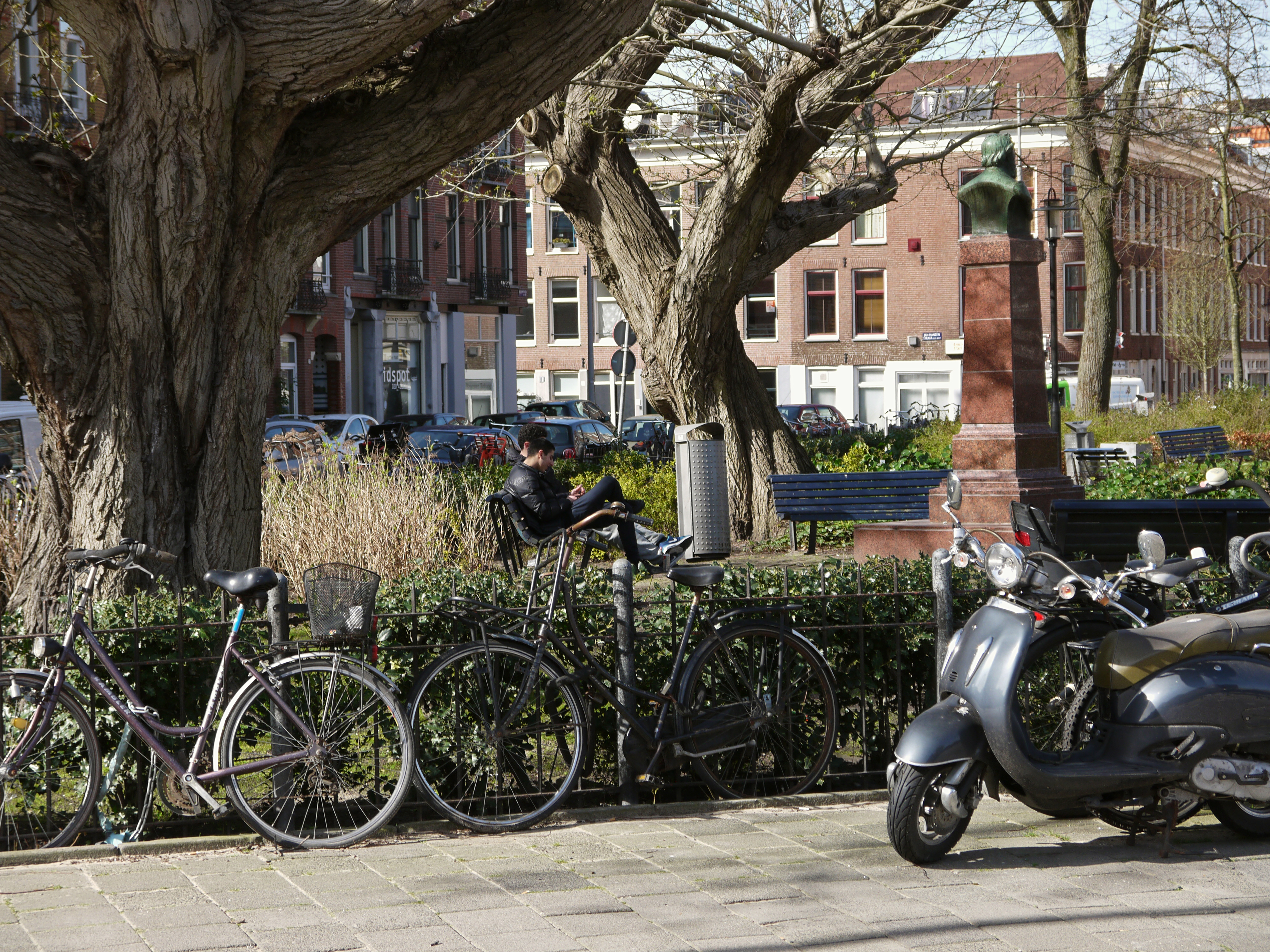 Early Spring and Urban Nature in the small city-park at Bellamyplein, in Amsterdam-West, very close tot the daily Ten Kate market and opposite the large doors of the tram depot, remise Tollenstraat, district Oud-West; 19 March 2014.